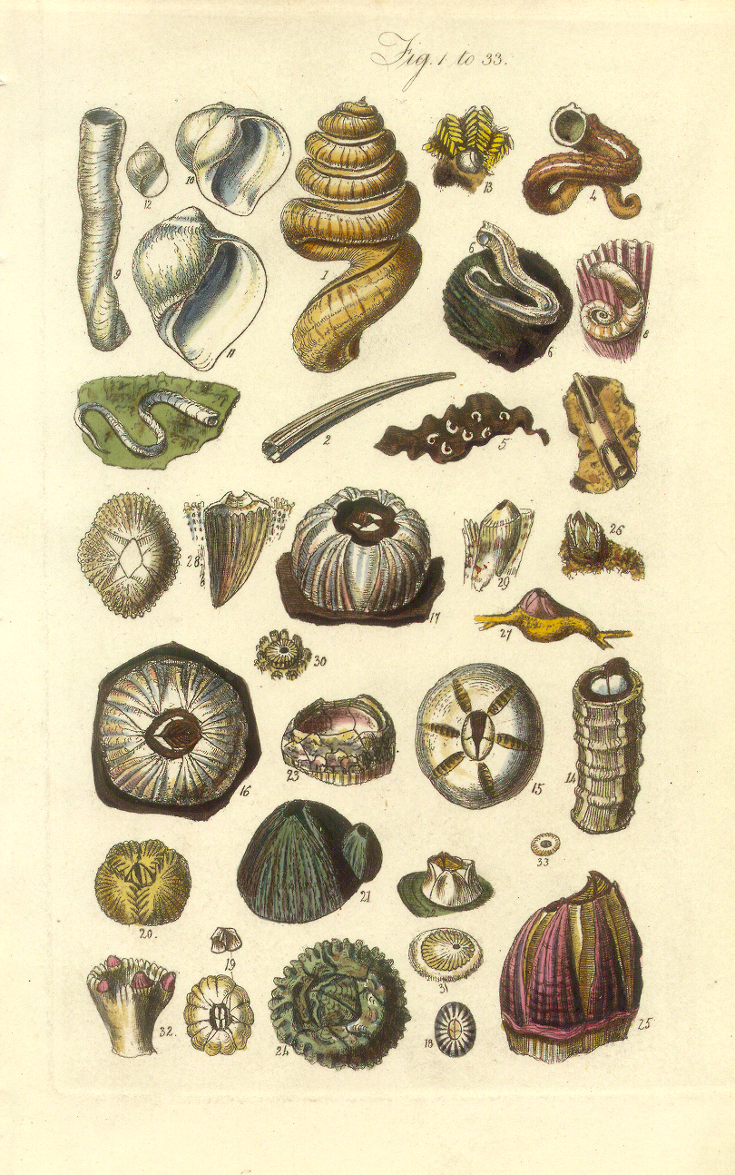 Conchological Manual Plate 1. Utilus pompilius and American thorny-oyster (Spondylus americanus) shells